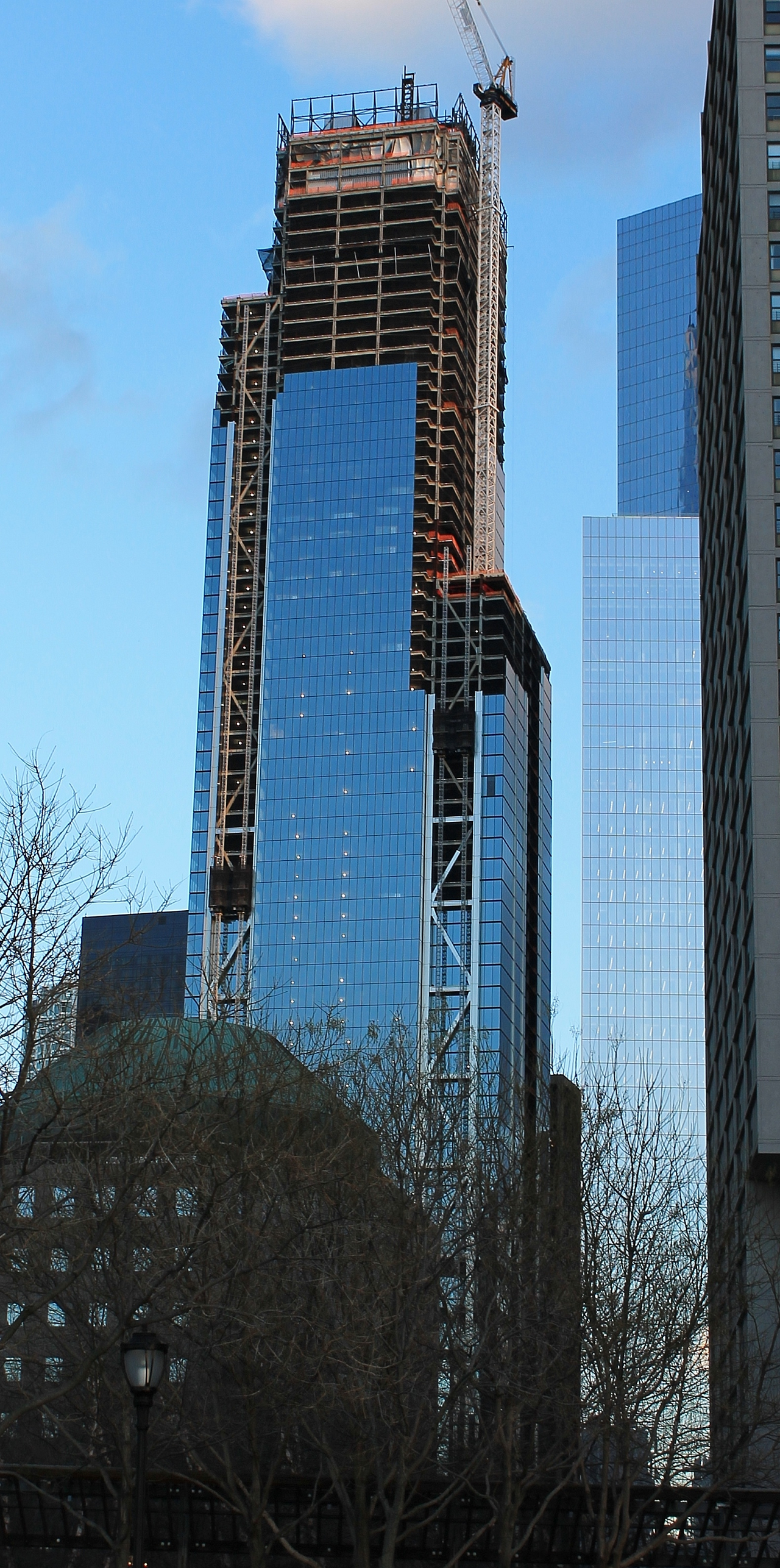 3 World Trade Center from Hudson River Park, 26 January 2017.